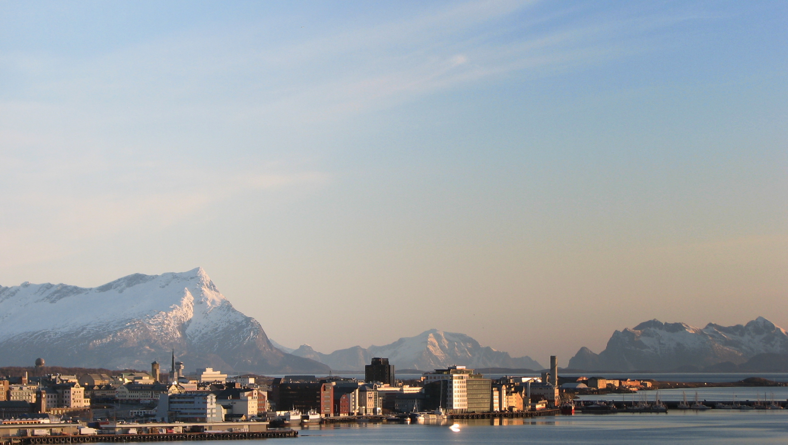 Bodø Harbour